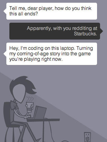 A scene at the beginning of Coming Out Simulator 2014.